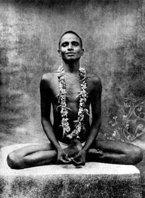 This is a photo of a now dead person Nityananda a Yogi who lived between 1897-1961.It was taken by a anonymous photographer during nityananda's teenage years as a yogi.The original was under the possesion of now dead 's copyright has expired in India according to the below license.since it was published more than 60 years ago.